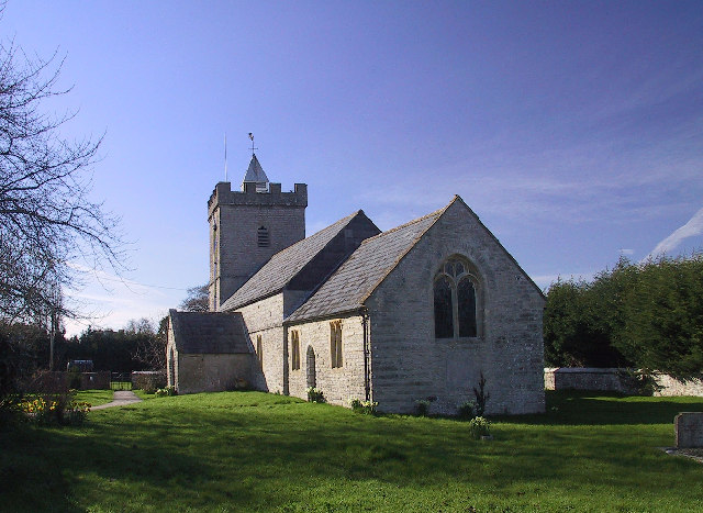 St Peter's parish church, Catcott, Somerset, seen from the east